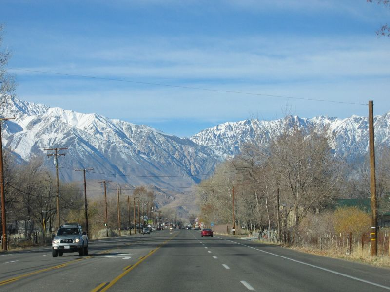 Road towards Mount Morgan in the Sierra Nevada. Mono County, California, USA.